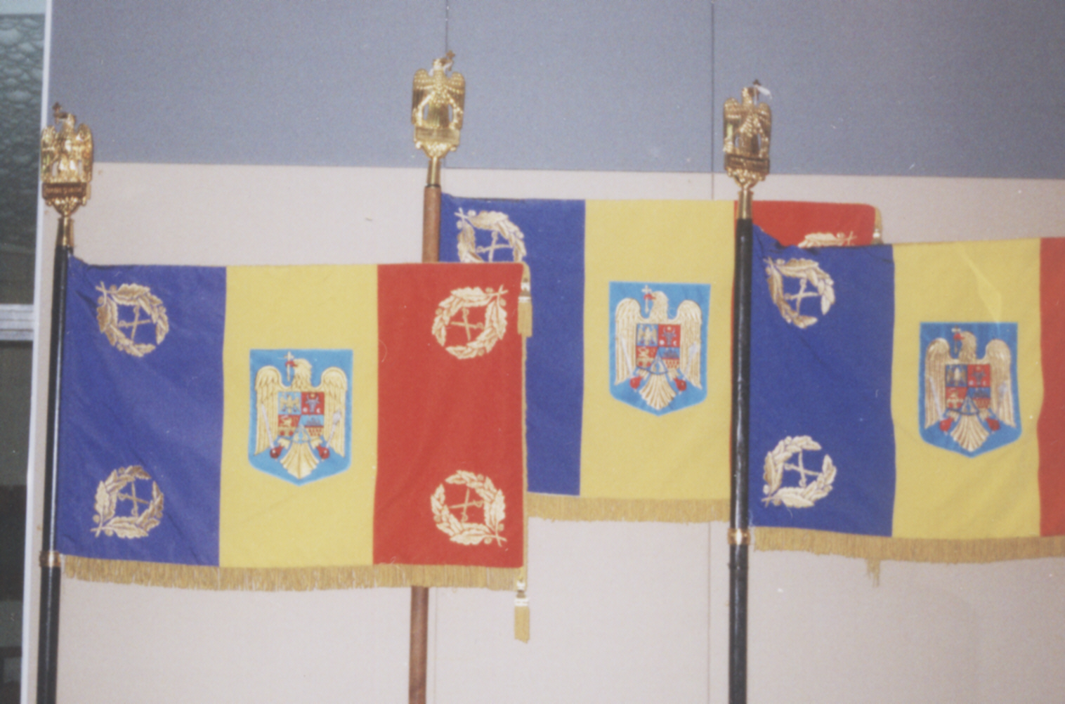 Three Romanian War Flags, in the Land Forces version, displayed at the National Military Museum in Bucharest.